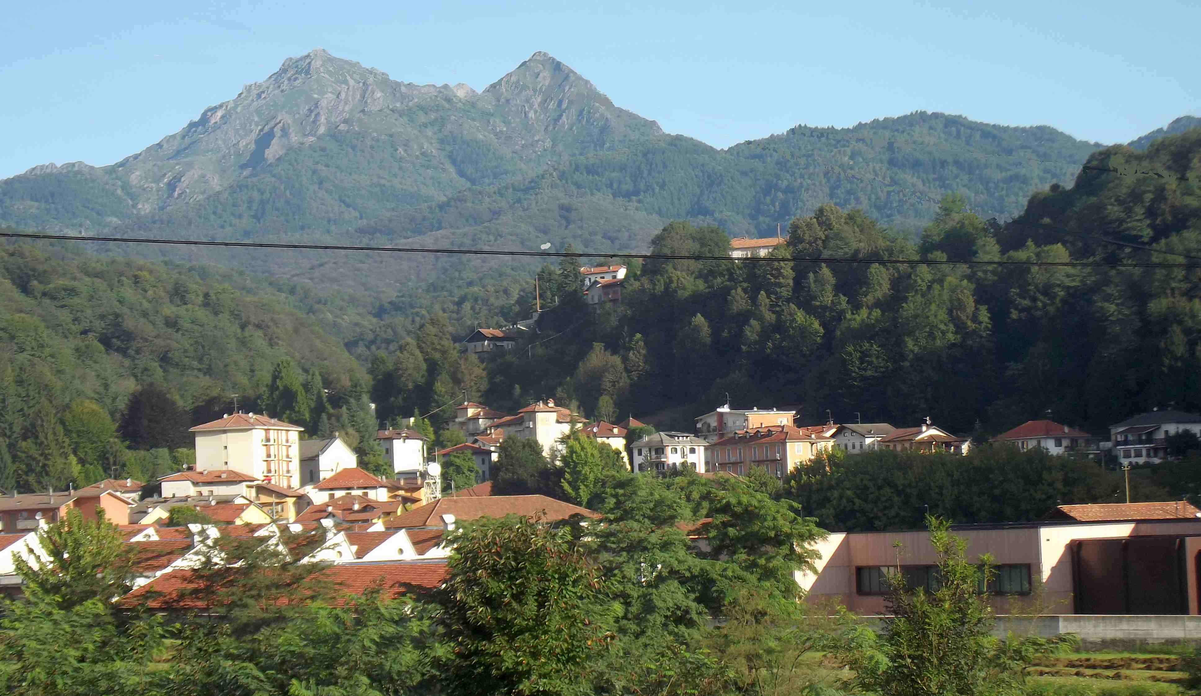 Pray (BI, Italy): panorama; in the background the Monte Barone